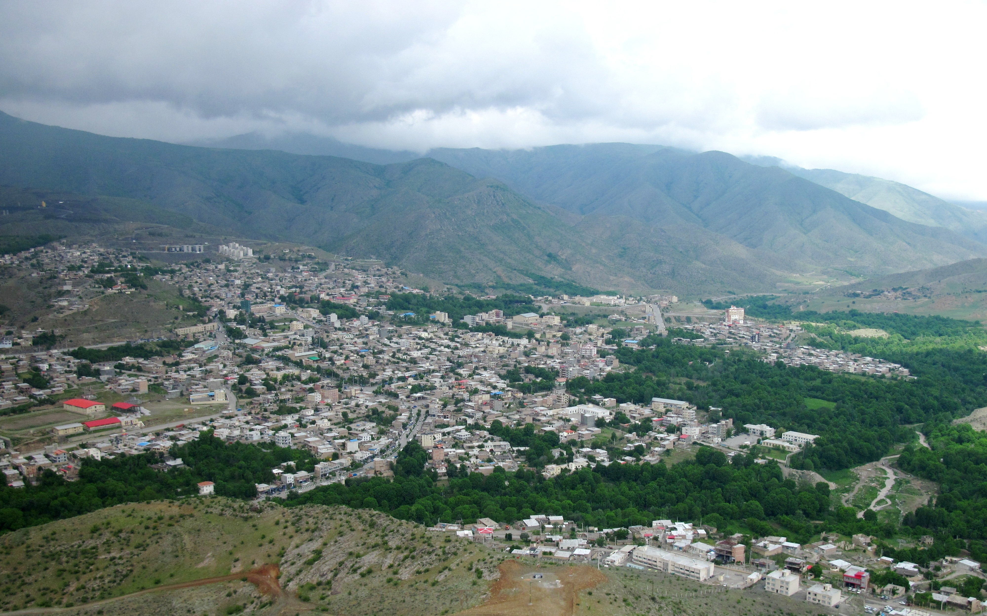 Ravanbakhsh Leysi has taken from Kaleybar city.